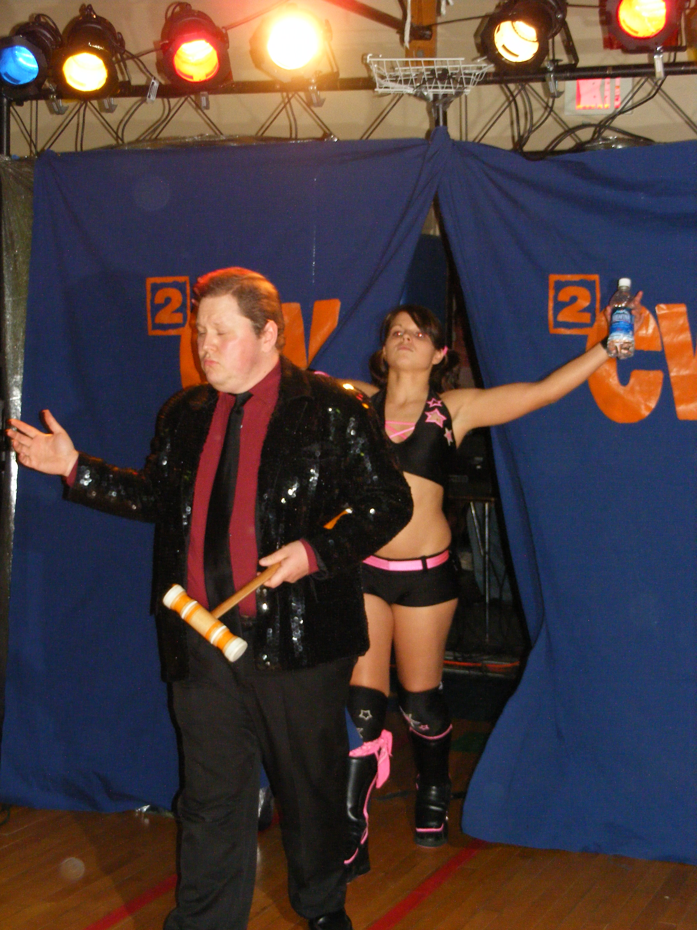 Portia Perez being led to the ring by Marshall McNeil